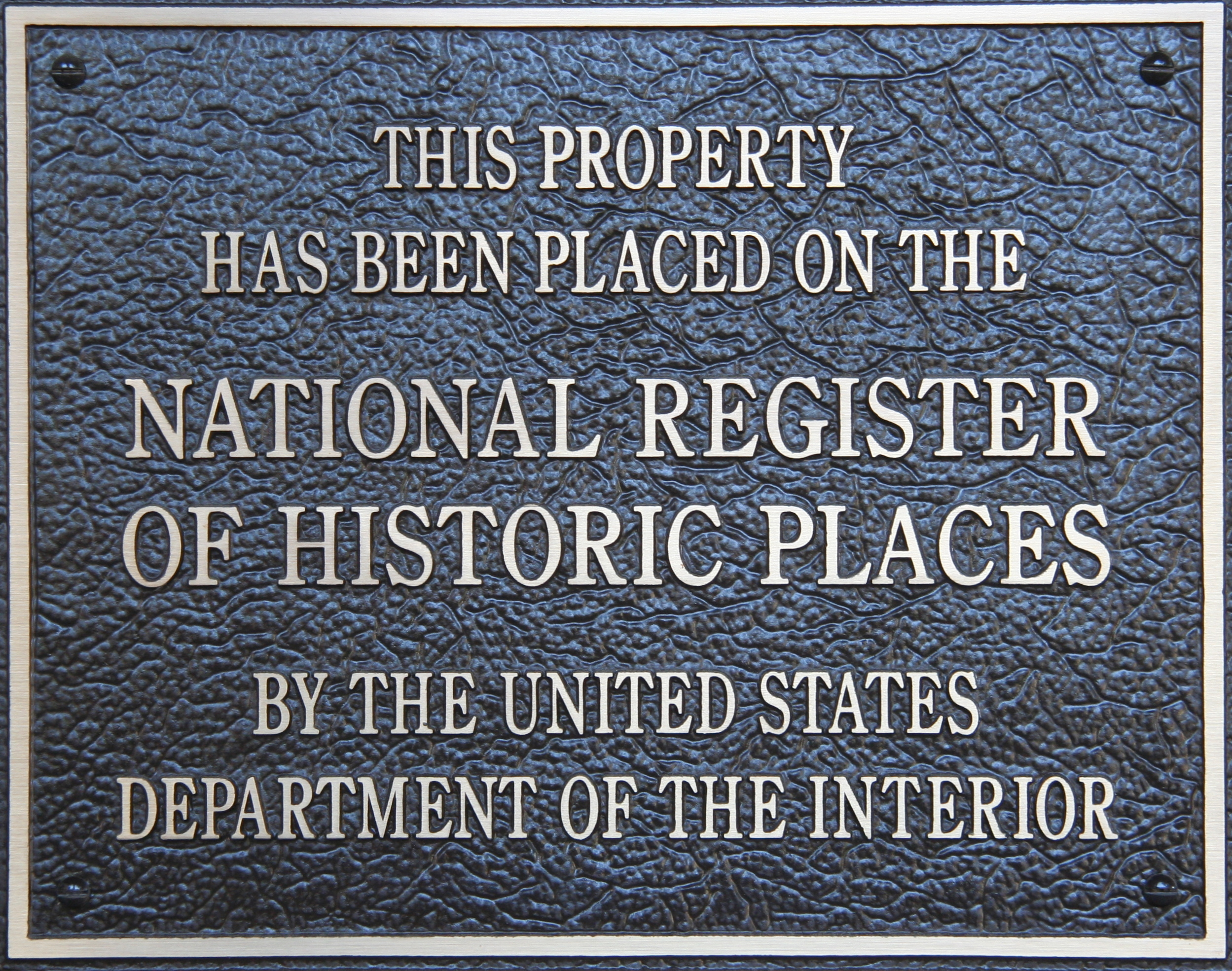 Plaque declaring "this property has been placed on the National Register of Historic Places by the United States Department of the Interior"